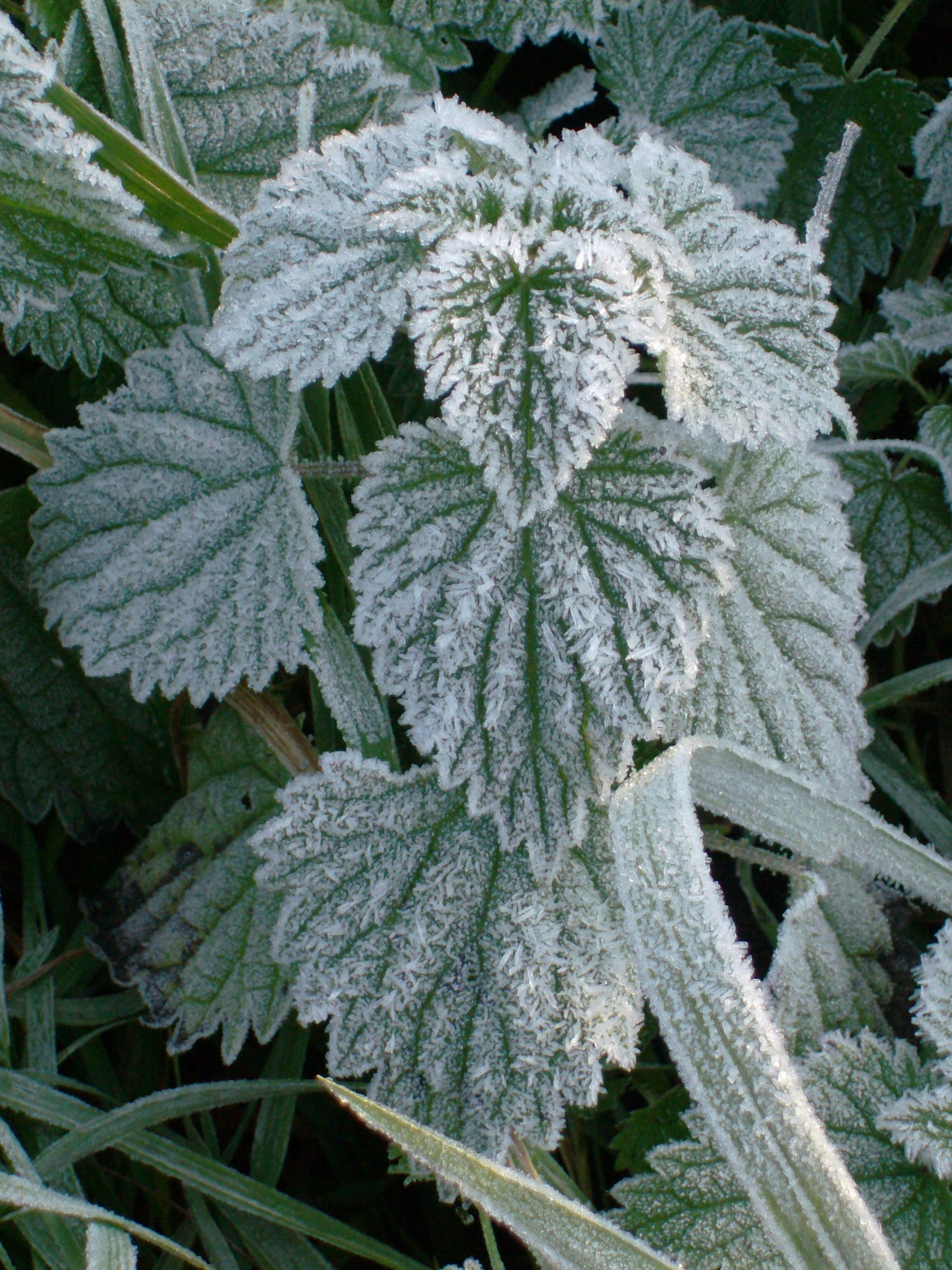 Frost on a nettle, Netherlands